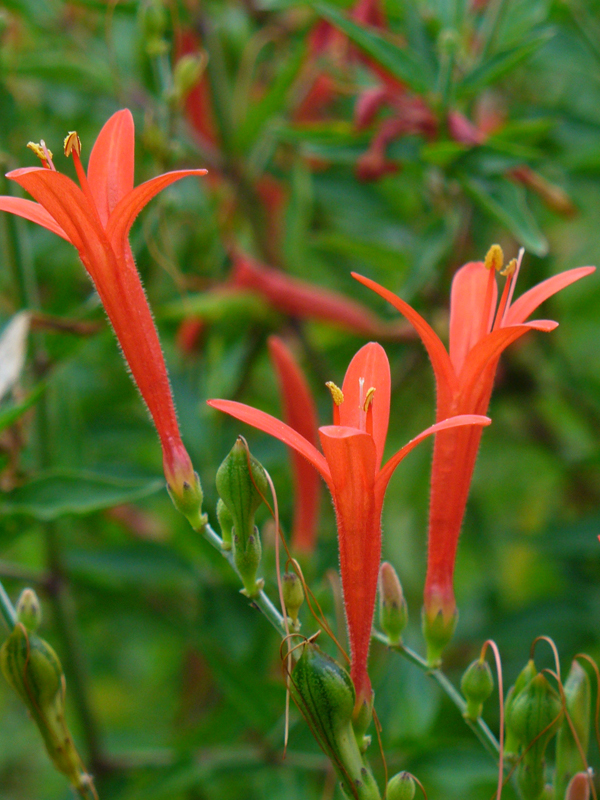 Anisacanthus quadrifidus South Miami, Florida